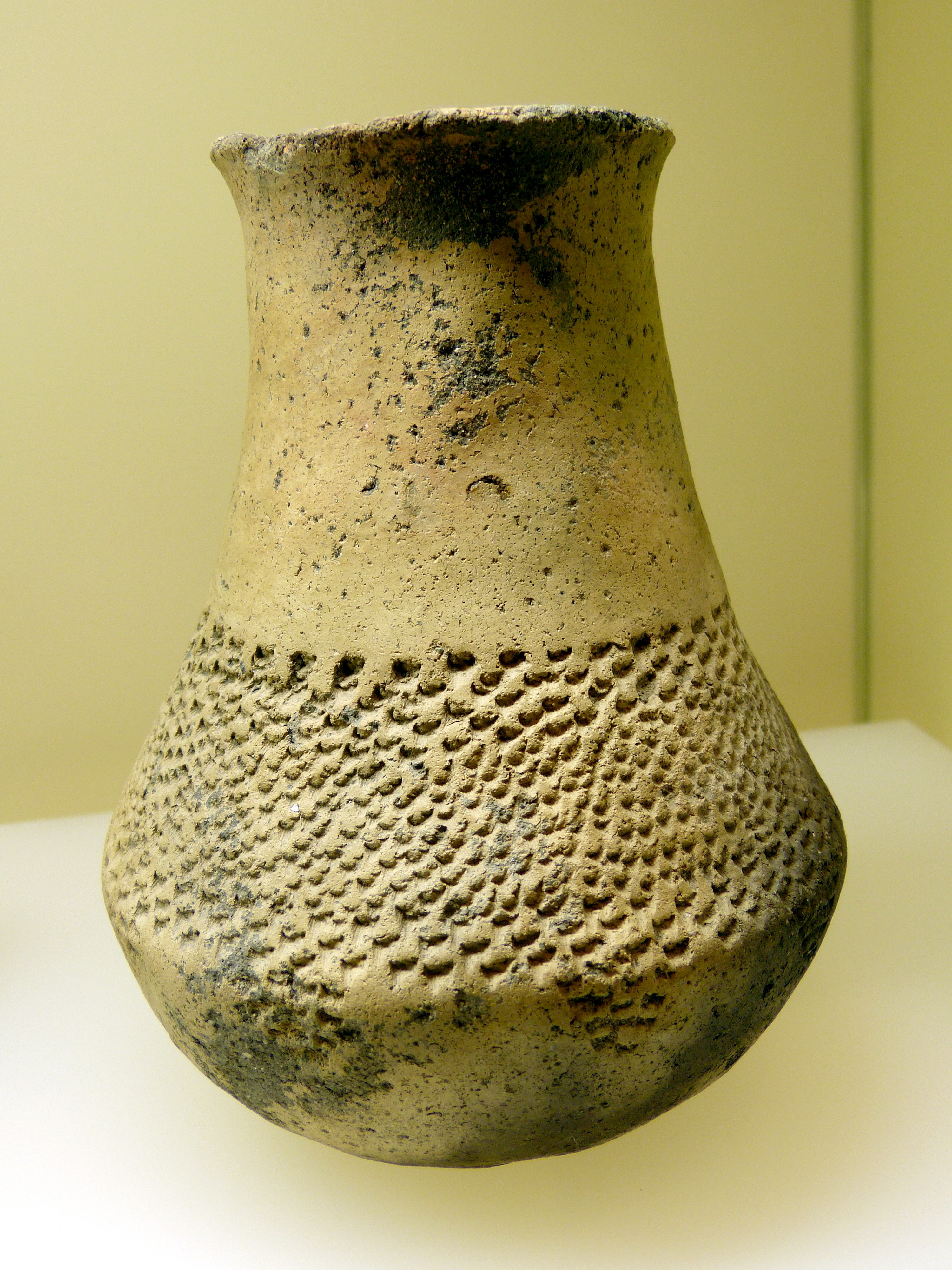 Brandenburg an der Havel ( Germany ) . Archaeological Museum of the state of Brandenburg - Stone Age Gallery:Rössen culture pottery ( 4.500 BC ), from Dyrotz.